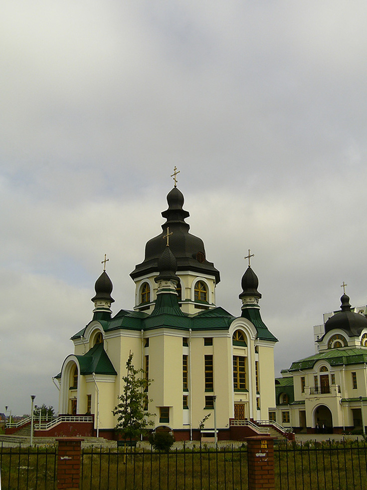 Church in Vyshneve, Kyiv Oblast, Ukraine